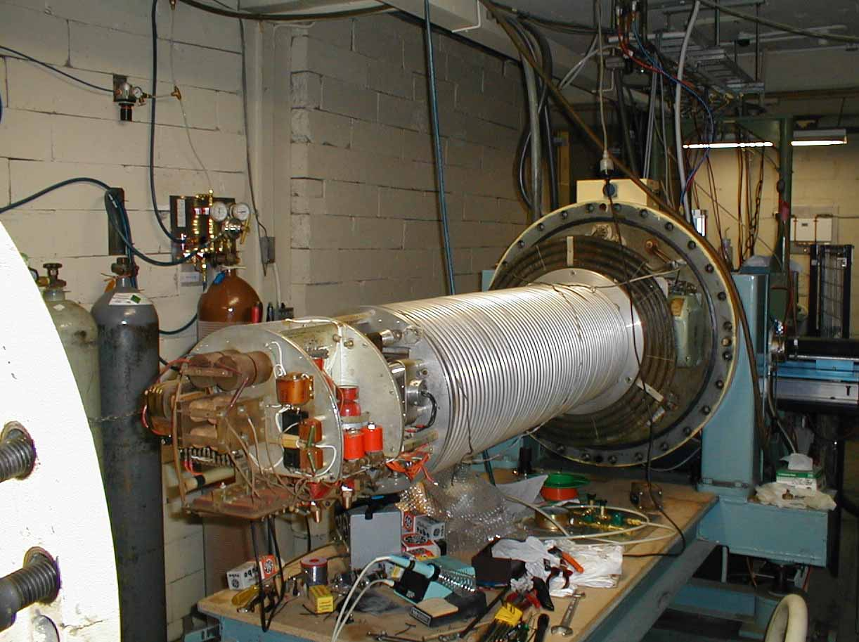 1960s vintage 2 MeV Van de Graaff linear accelerator. A single ended belt charging linear accelerator made by "High Voltage" used primarily to accelerate hydrogen and helium ions from a RF positive ion source. The machine was capable of terminal voltages above 2 million volts. This machine operated at the Australian National University from the early 1960s till 2000. It consists of an endless fabric belt, inside the tube, that carries charge to the inside of a large spherical capacitive electrode (not shown)